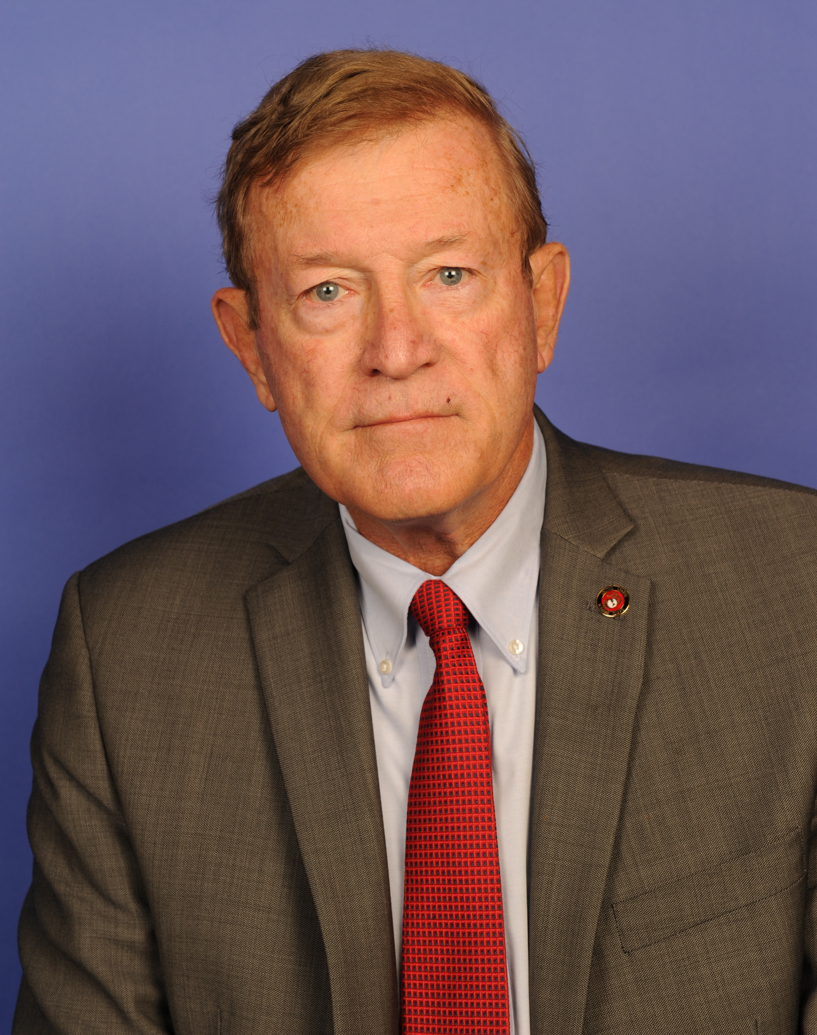 Official portrait of Congressman Paul Cook (R-CA).